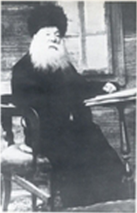 Photo of Rabbi Josef (Josek) Lewinsten (Lewinsztejn), born July 11, 1842 in Lublin, Poland (died 1924 in Serock, Masovian Voivodeship, Poland). Archives of the Jewish Historical Institute ŻIH in Warsaw, Museum of Polish Jews.